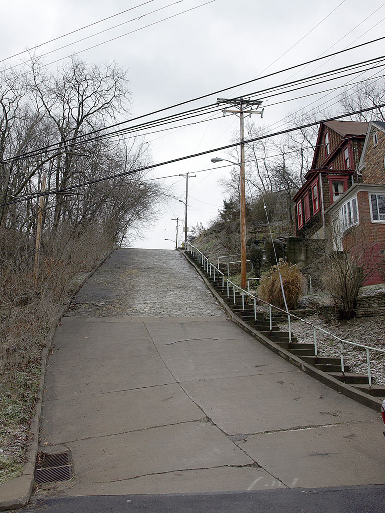 Canton Avenue, in Pittsburgh, Pennsylvania's Beechview neighborhood, is the steepest public street in the United States. This is the view from the bottom of the hill.